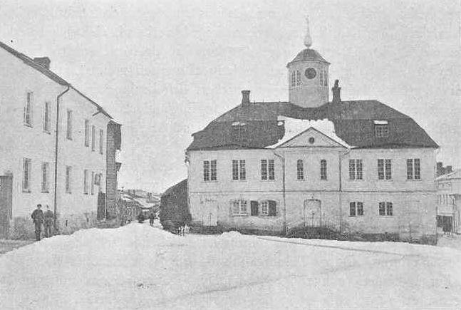 Borgå, the old town hall.